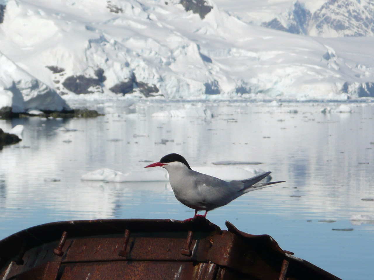 Sterna vittata - Peninsula Antarctica - Entreprise Island